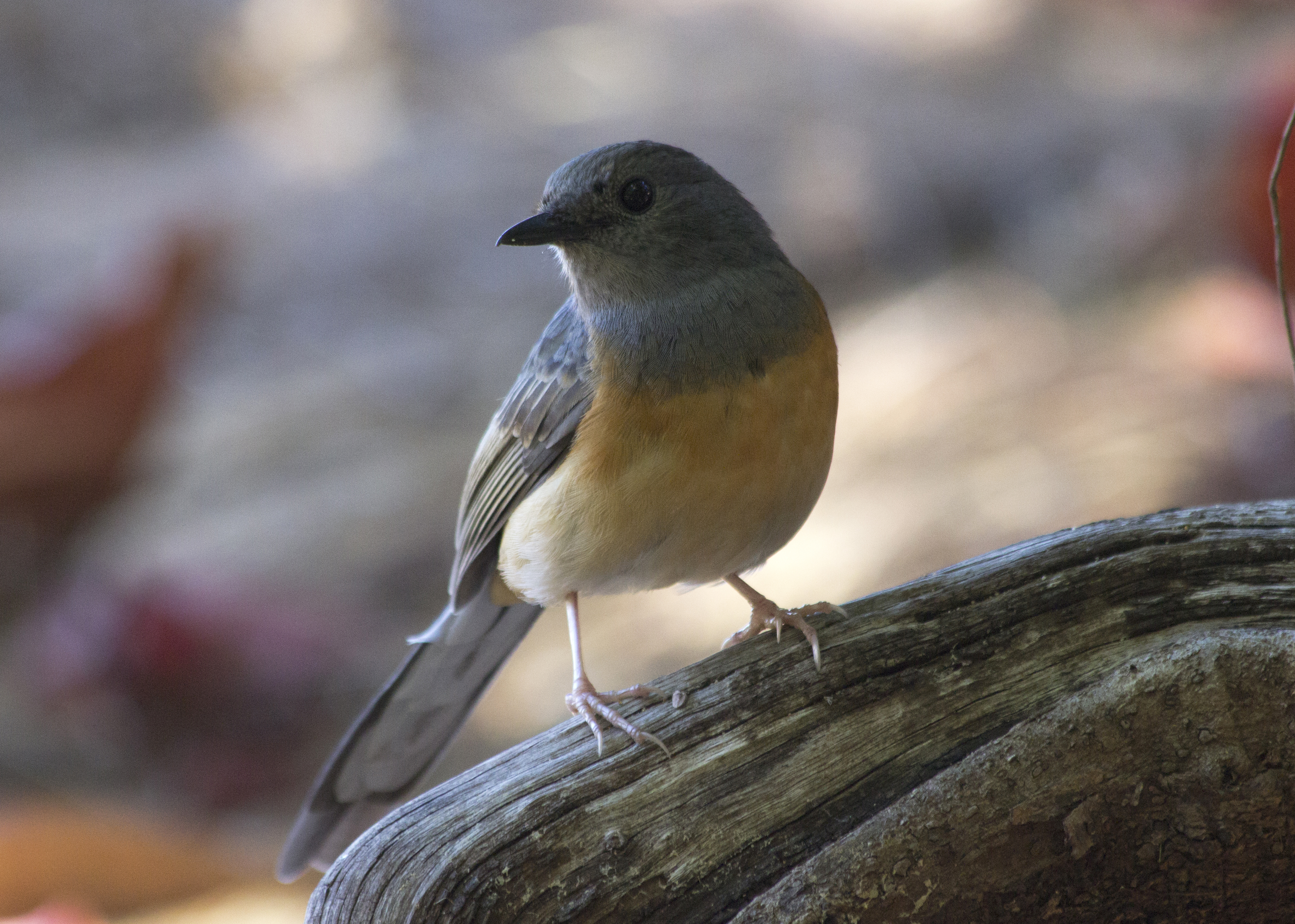 Photographed near Hanalei, Kauai, Hawaii.